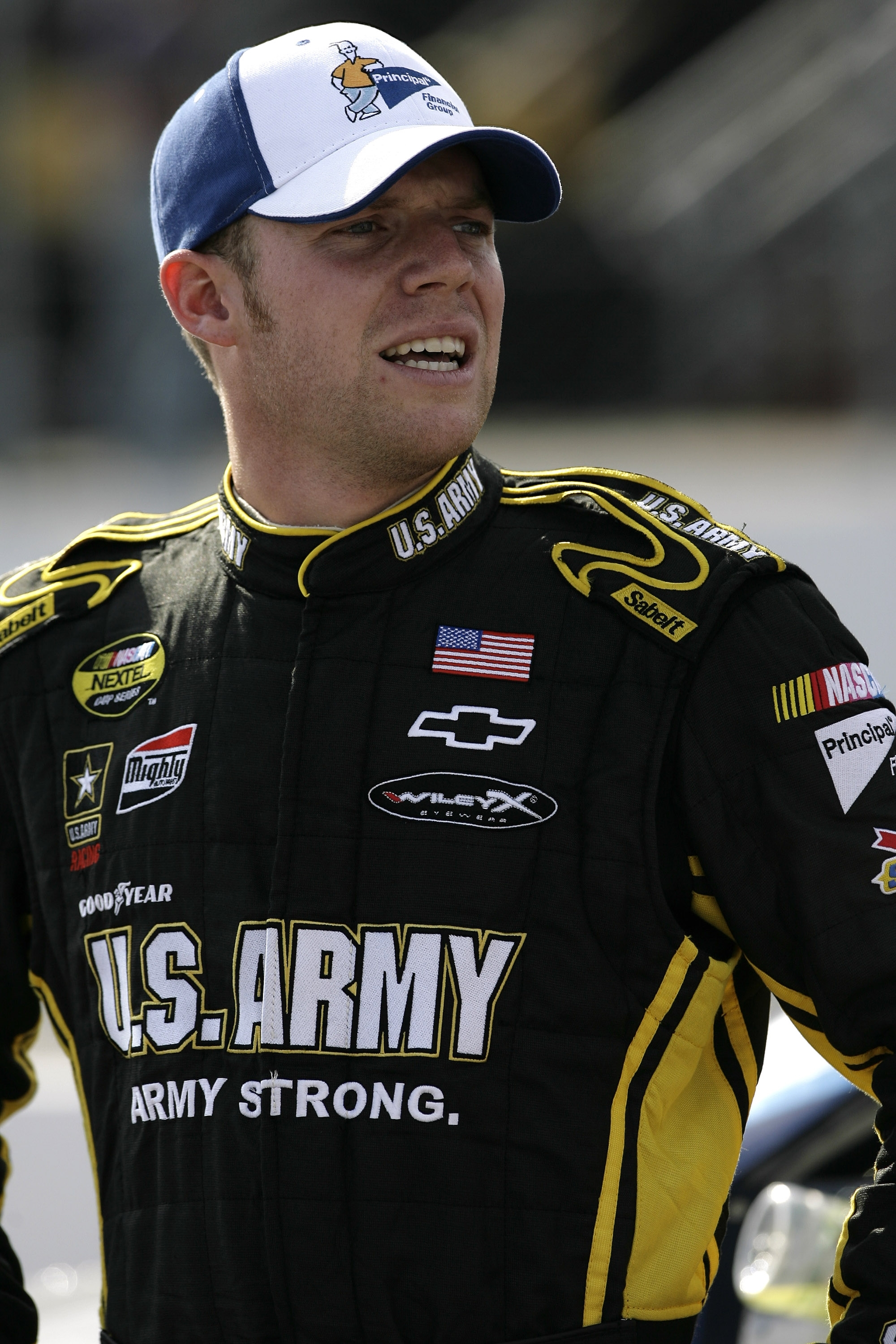 NASCAR driver Regan Smith. Regan Smith at NH; Photo by U.S. Army Racing; September 18, 2007; In his seventh career Cup start, Army driver Regan Smith placed 36th at Sunday's Nextel Cup Race at New Hampshire International Speedway. [1]